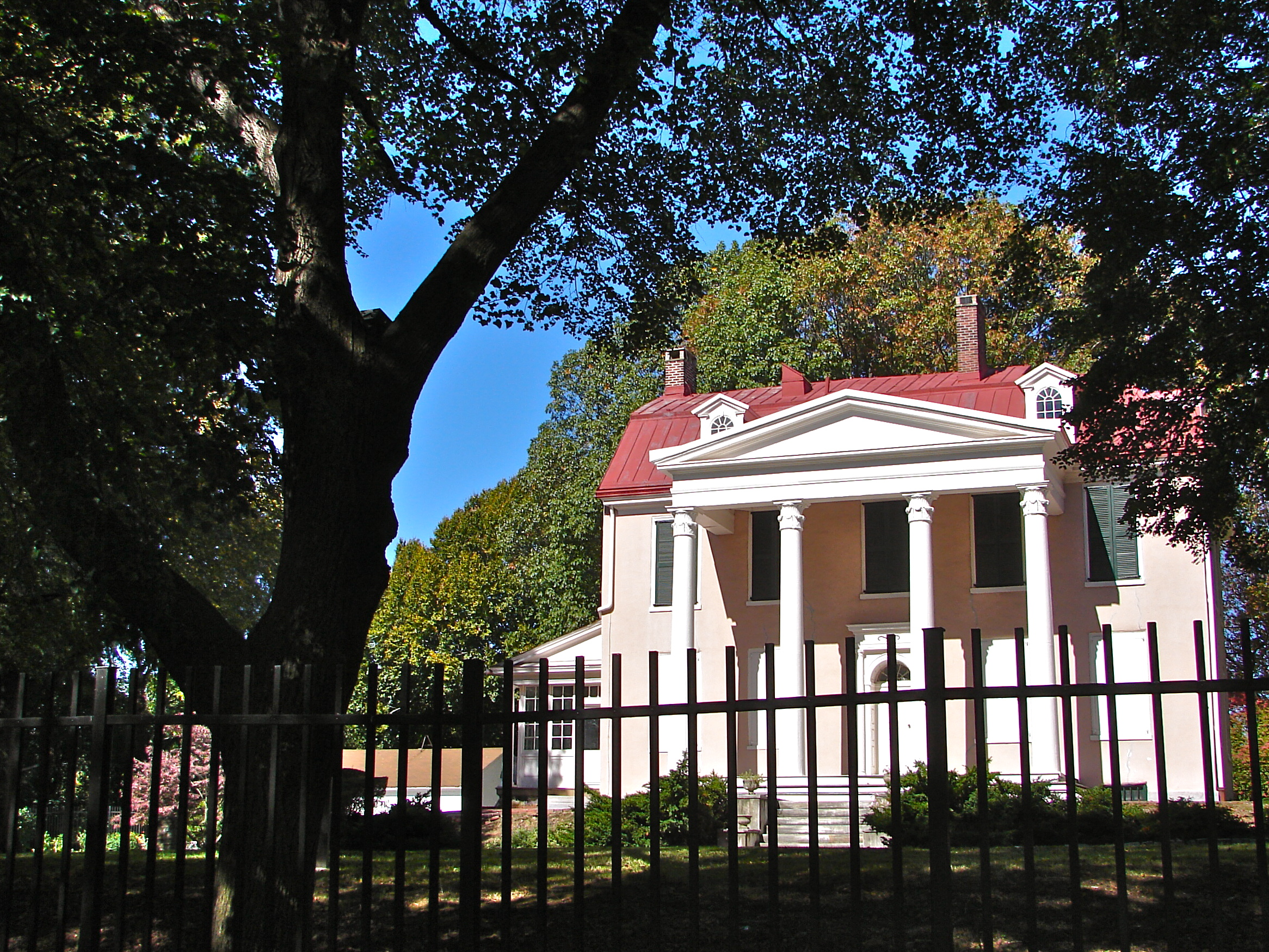 4650 Germantown Ave., Philadelphia, PA. The Loudon Mansion, built by Thomas Armat 1796-1801, additions in 1829, 1850,1888, rehab 1865. 2.5 stories, stucco on rubble with wooden trim in the Federal style. Considered significant in the NRHP inventory of the NRHP Colonial Germantown Historic District